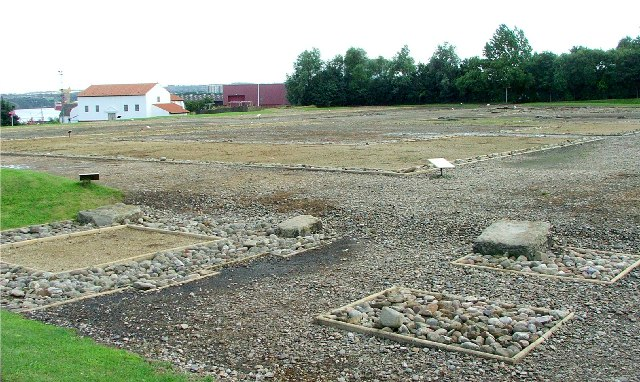 Segedunum Roman Fort and Baths. Occupied for some 300 years, the site had buildings on for 200 years. The last buildings were demolished in the early 70s and the area preserved. An observation tower makes sense of the area.